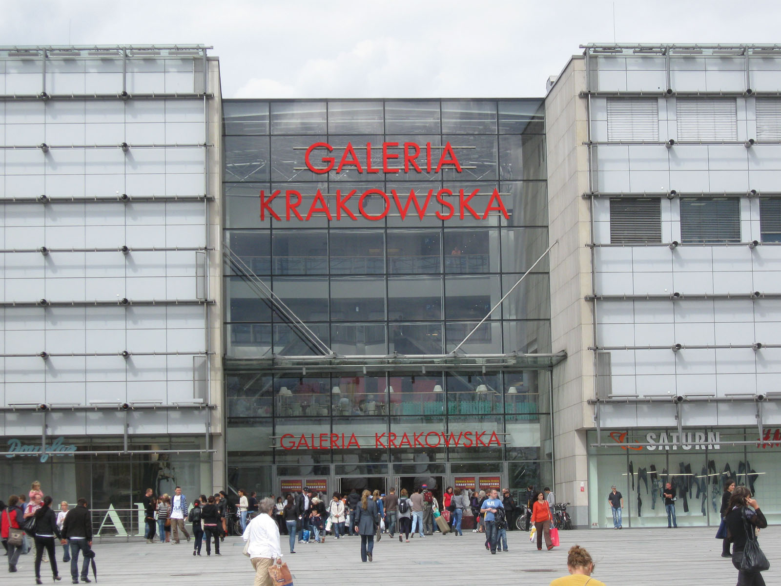 Galeria Krakowska in Kraków, Poland